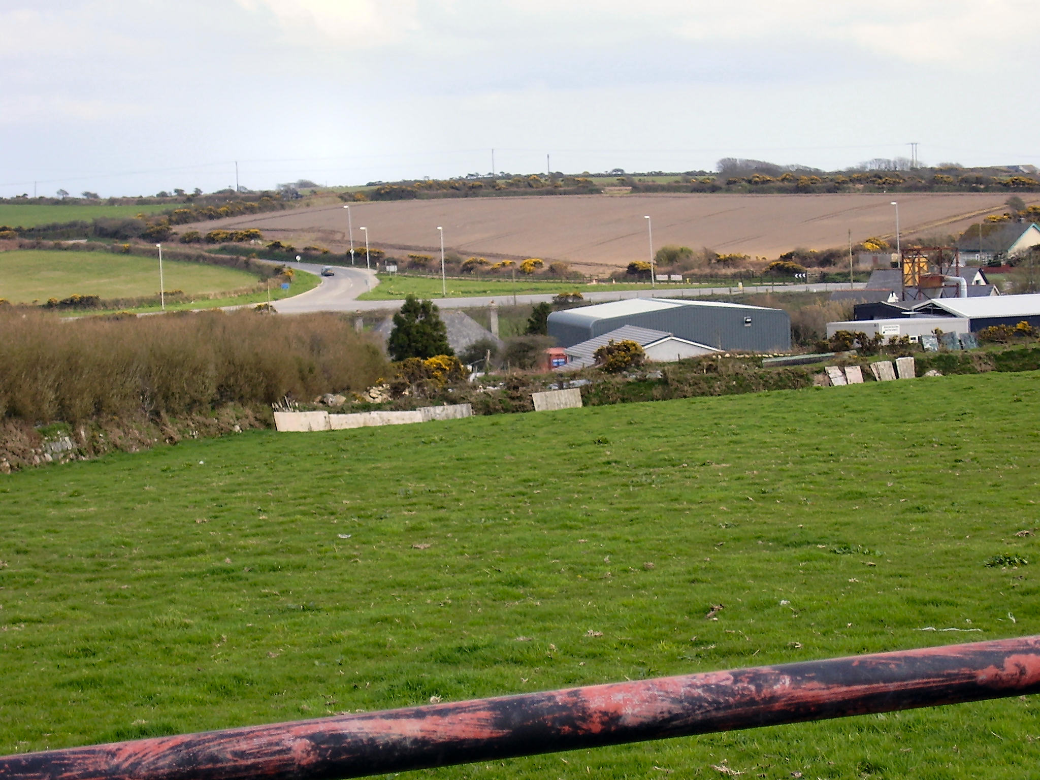 The main road (A394) entering Longdowns from Penryn